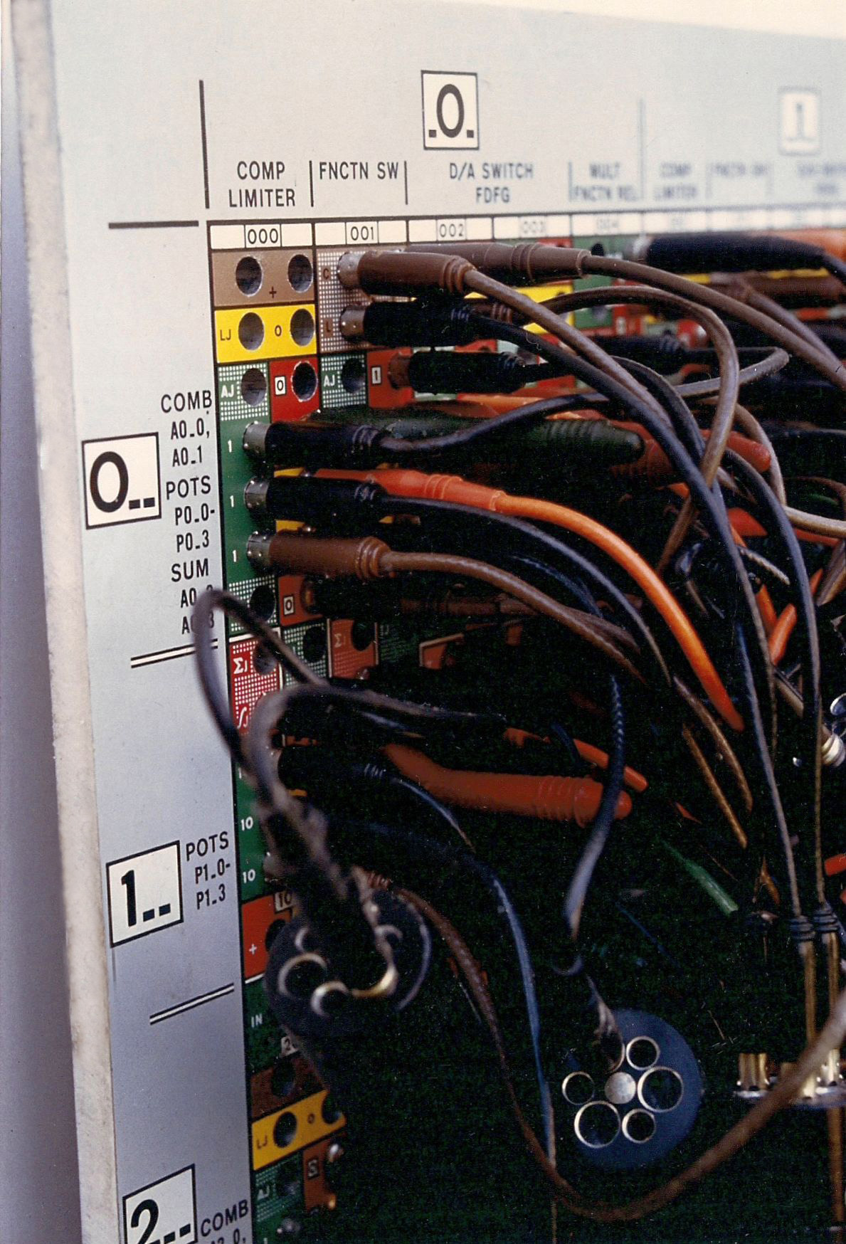 front view (cabling side) of the switching board of an analog computer (model EAI-8800), for the hybrid simulation of a nonlinear wheel track system, ca 1985